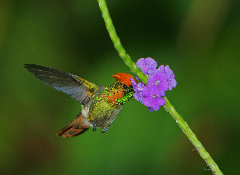 A Tufted Coquette flying at Asa Wright Nature Centre, Northern Range, Trinidad, Trinidad and Tobago.